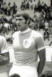 Yochanan Wallach יוחנן וולך